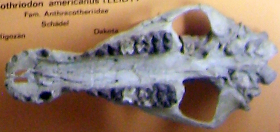 Ancodon americanus (jr synonym Bothriodon americanus) skull at the Museum für Naturkunde, Berlin.